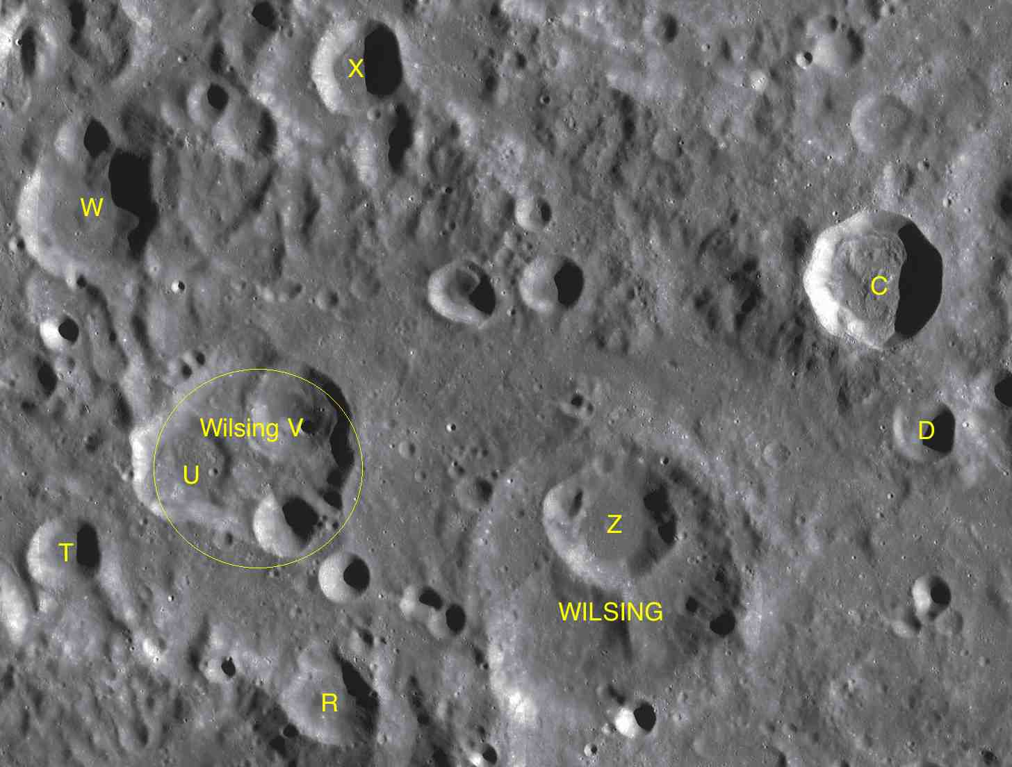 Part of the chart LAC-105 used for the presentation